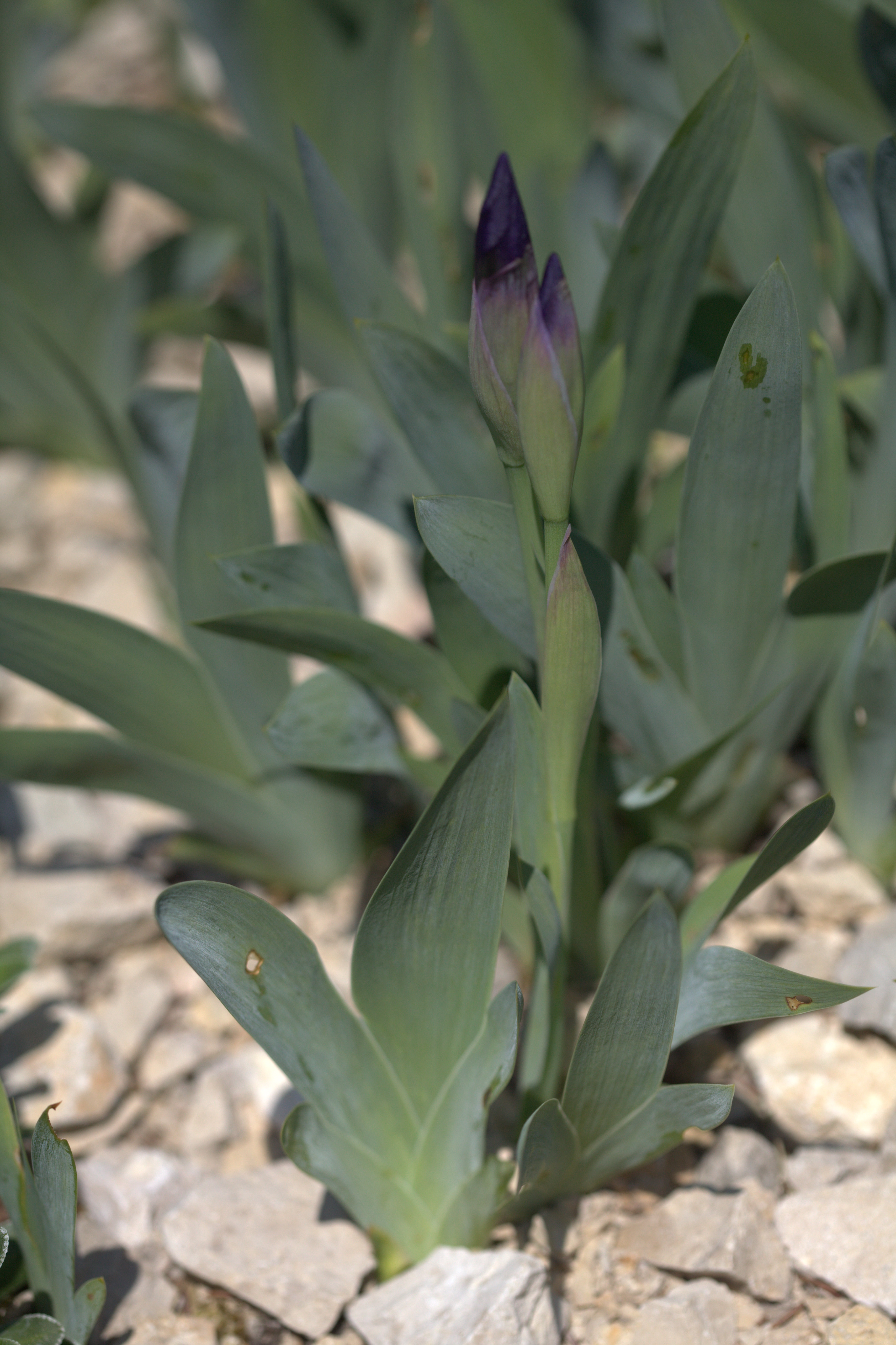 Purple flower bud of Iris lutescens Lam. Photo taken at the alpine section in the botanical garden in Munich, Germany.